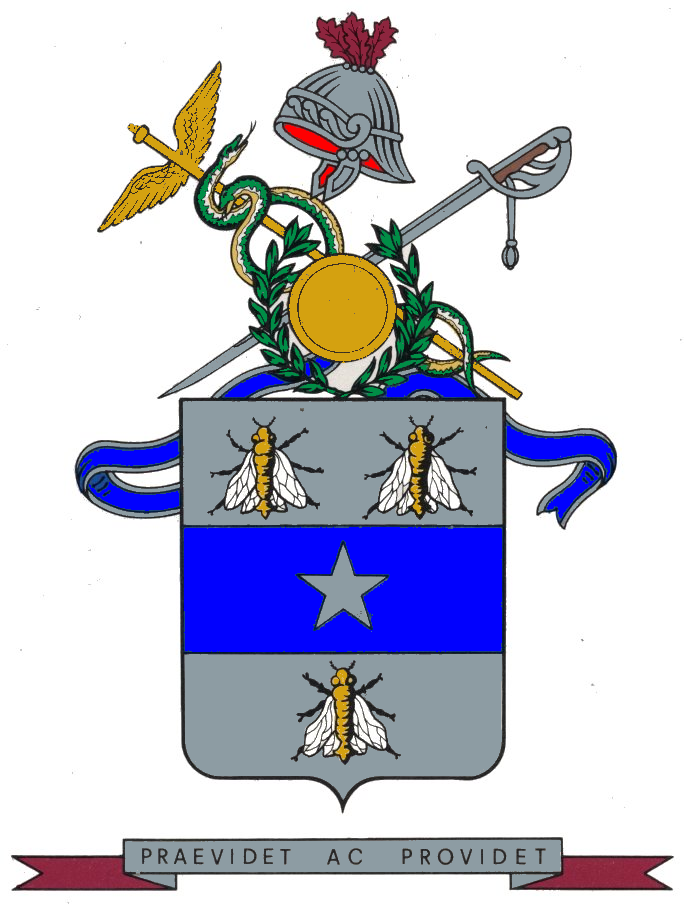 Coat of Arms of the Commissariat Corps (year 1974); Italian Army.